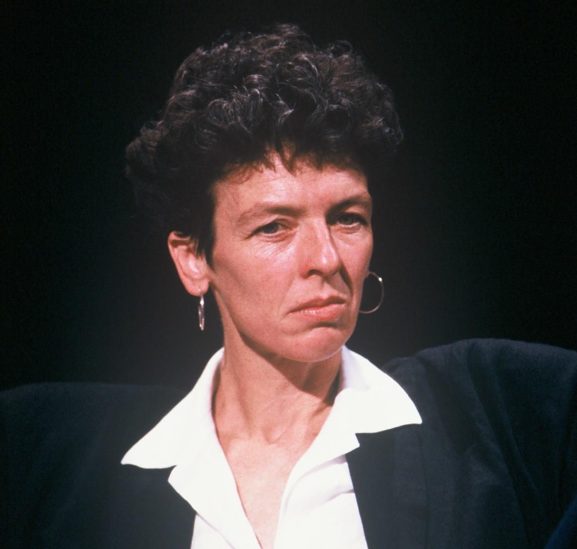 Beatrix Campbell appearing on After Dark on 3 July 1987. Other guests included Edward Teller, Rudolf Peierls, Enoch Powell and Sergey Kapitsa. More here.